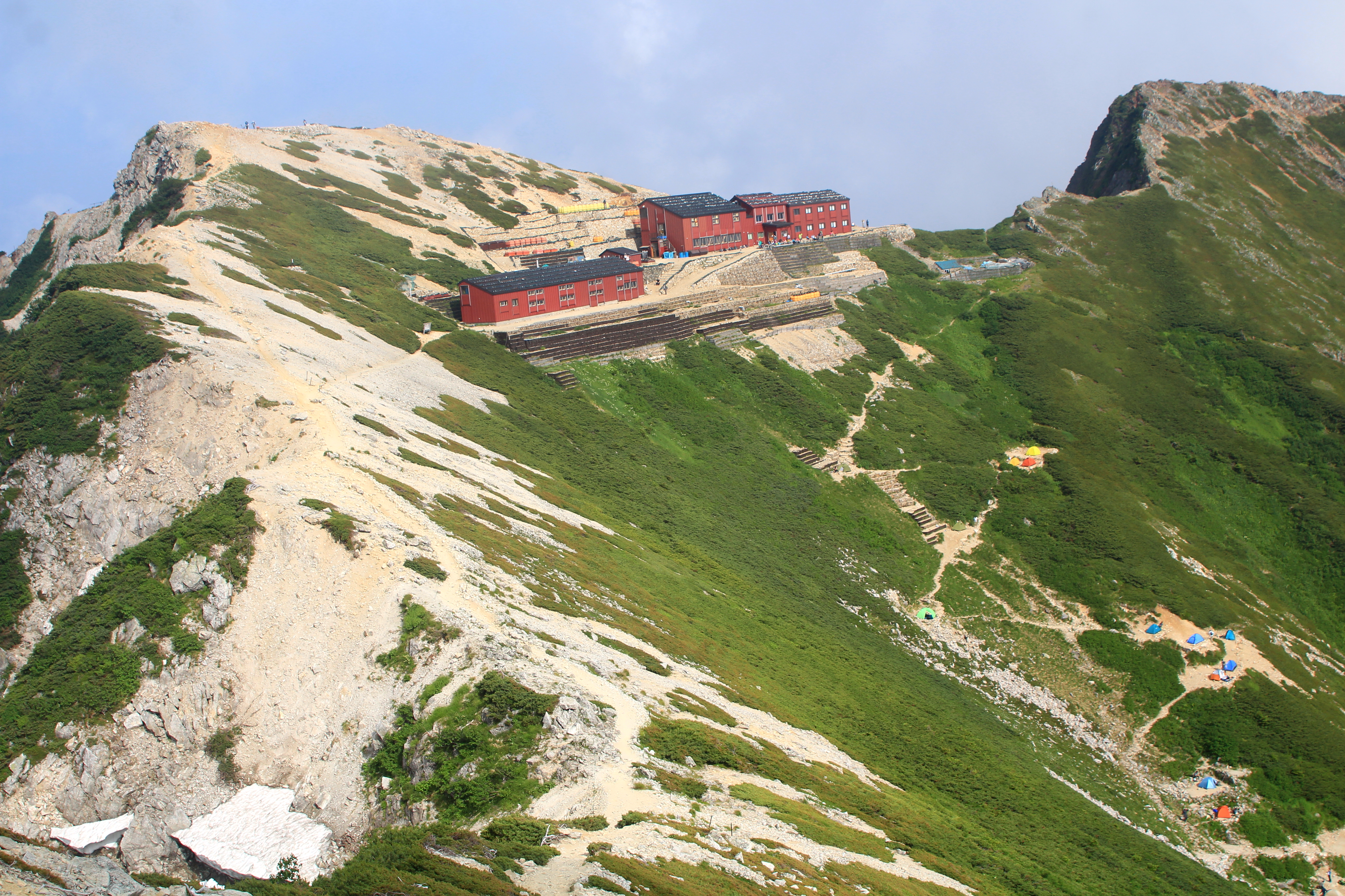 Karamatsudake chojosanso and Campsite on Mount Karamatsu, Hida Mountains, Kurobe, Toyama Prefecture, Japan.